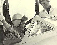 King Hussein visiting an air force base during his visit to Great Britain 1955